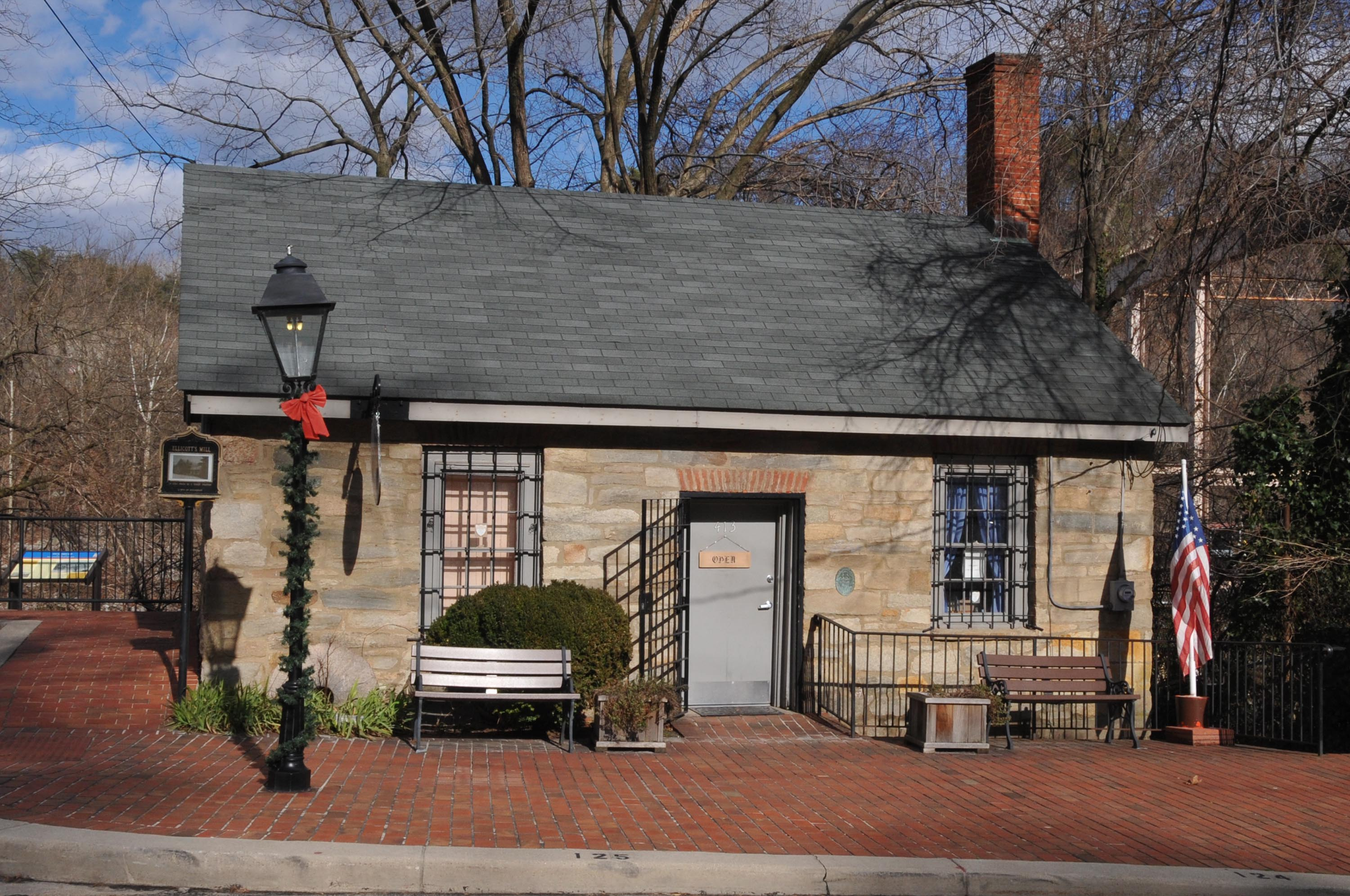 ELLICOTT’S MILL; THE FIRST MILL WAS ESTABLISHED IN 1755 BY JOHN BALLENDINE BUT LATER WAS RUNS BY NATHANIEL ELLICOTT. THE MILL WAS THE FIRST AUTOMATED GRIST MILL IN THE UNITED STATES. IT REMAINED IN OPERATION FOR 175 YEARS UNTIL DESTROYED BY FIRE BUT THE MILL HOUSE STILL REMAINS AS A MUSEUM. Located in Prince William County, Virginia, USA